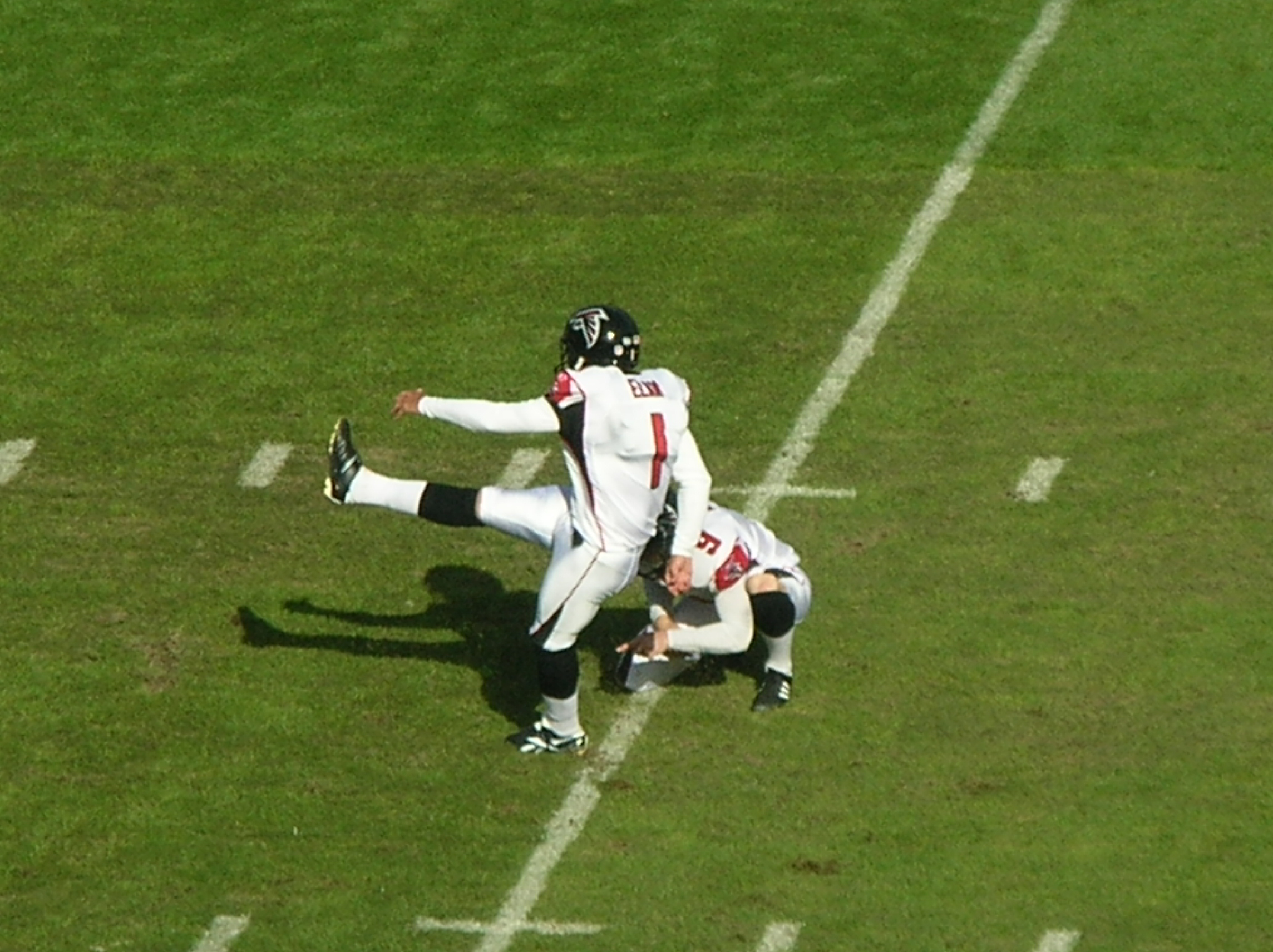 Atlanta Falcons kicker Jason Elam kicks a PAT at a road game against the Oakland Raiders. The Falcons won 24-0.